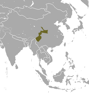 Stripe-backed Shrew (Sorex cylindricauda) range